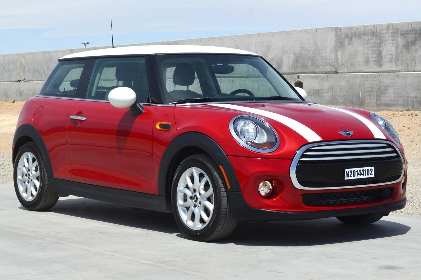 2014 MINI Cooper Hardtop, photographed in USA.